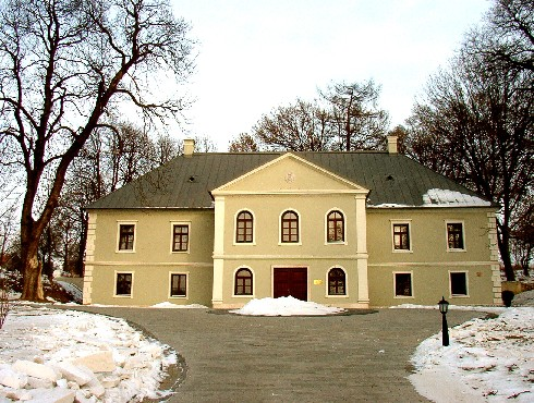 Pallavicini Castle, Pusztaradvány